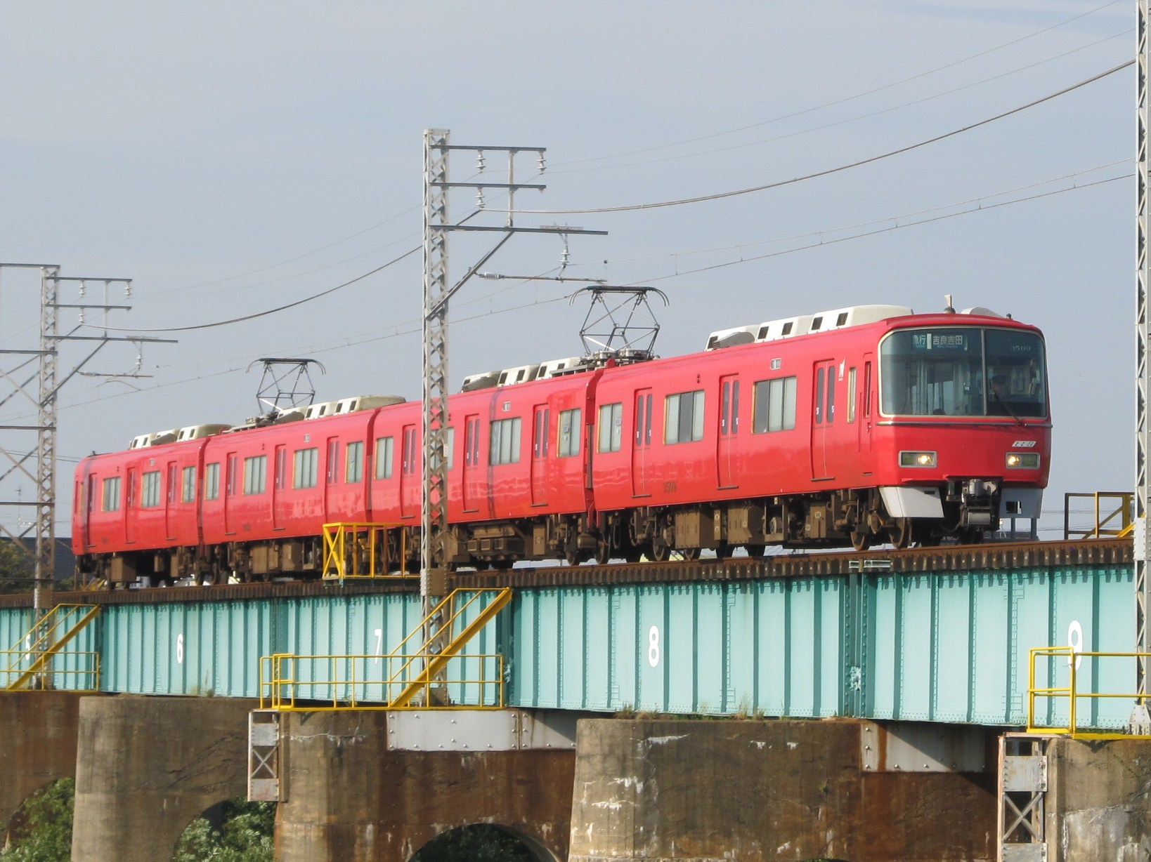 Meitetsu 3500 series. Express bound for Kira Yoshida.